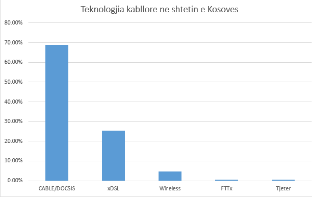 Bukur